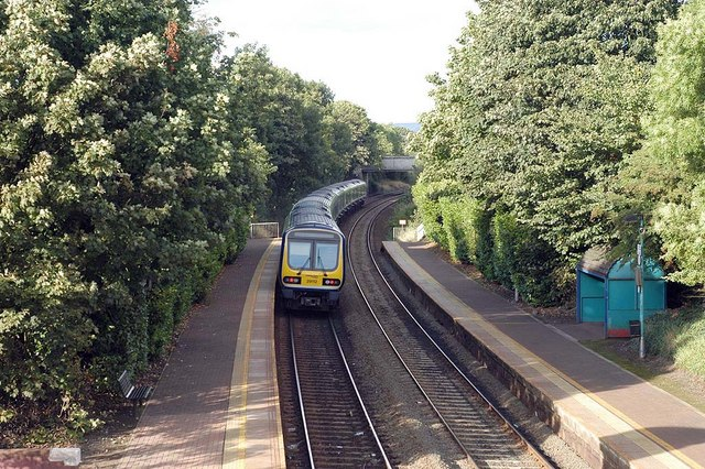 IÉ 29000 Class diesel multiple unit on a Dublin to Belfast service leaving Lambeg railway station, Co. Antrim, Northern Ireland, heading towards Bells Lane overbridge